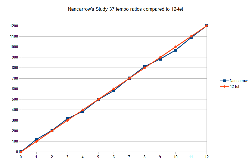 Conlon Nancarrow's tempo ratios used in his Study No. 37 compared to the frequency ratios used in 12-tone equal temperament chromatic scale.